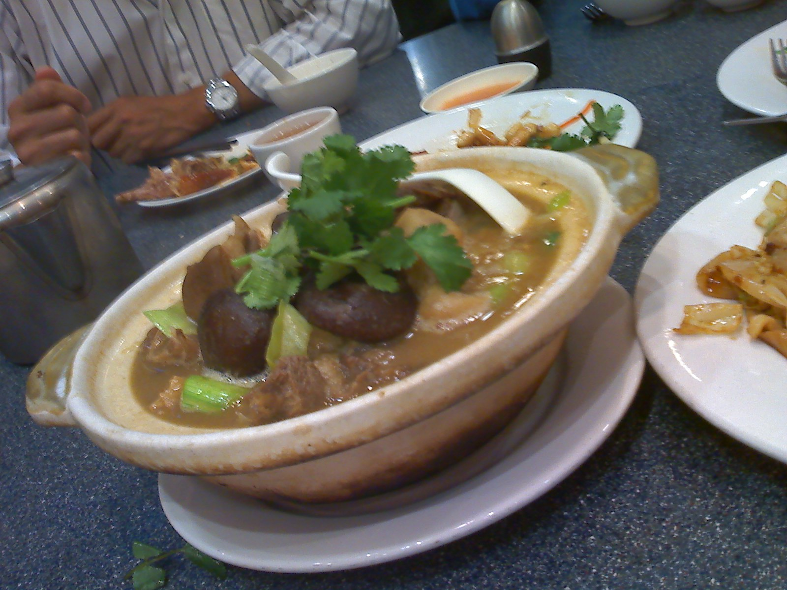 Lamb brisket pot